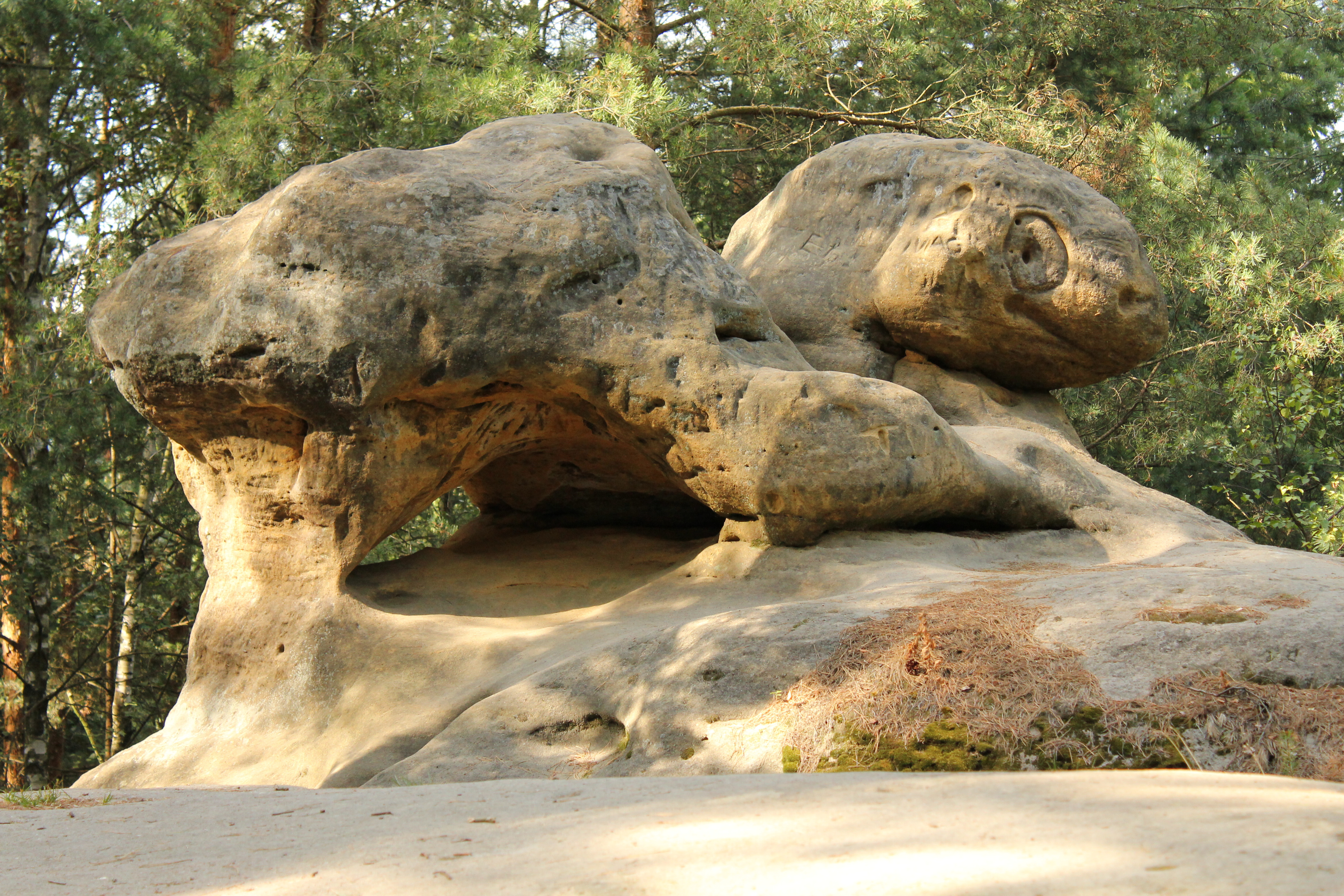 "Turtle Rock"